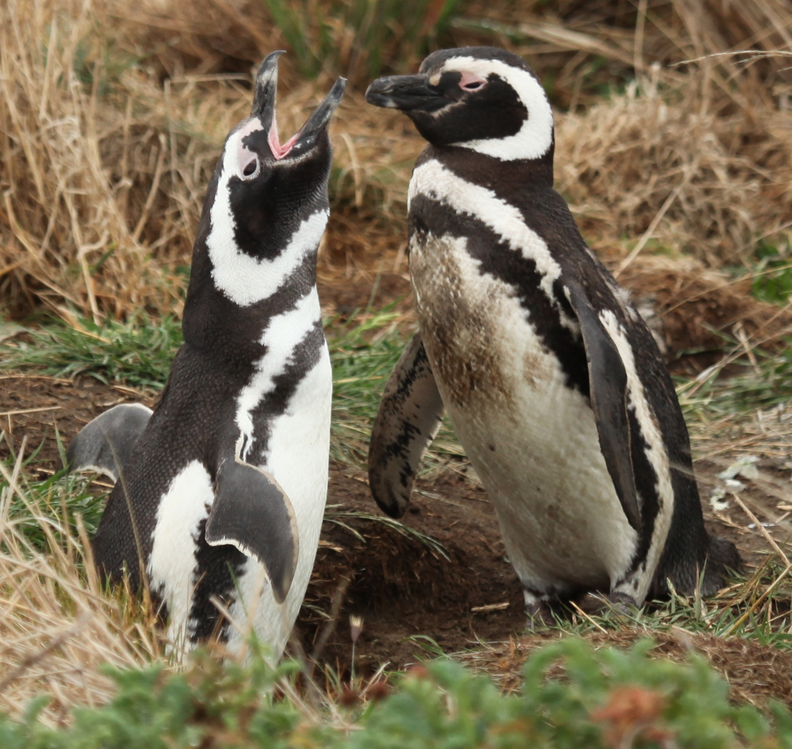 Magellanic Penguins at Otway Sound, Chile